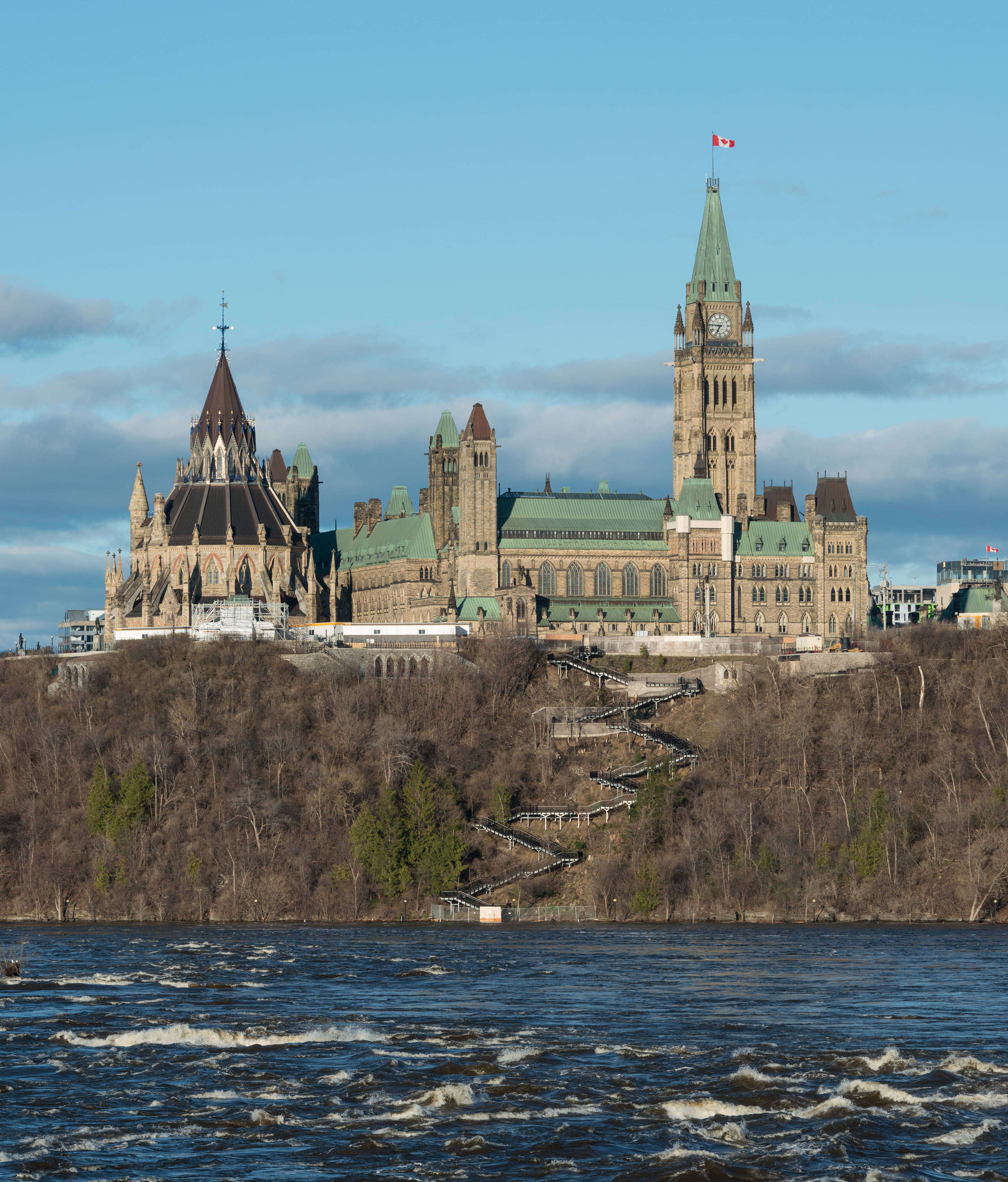 A west view of Centre Block and the Library of Parliament, Ottawa, Ontario